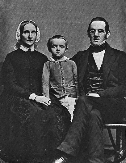 Reverend Samuel Chenery Damon, Julia Mills Damon, and Samuel Mills Damon.